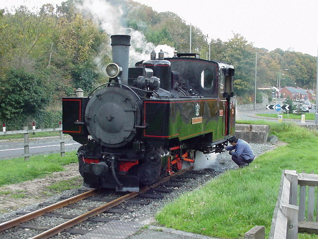 Welshpool (Raven Square) Station. The Welshpool and Llanfair railway now ends on the edge of the town. Previously, the track ran between the houses to the main station on the Shrewsbury to Aberystwyth line. [Looking NE]